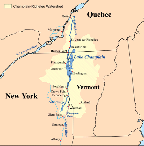 This is a map showing the Lake Champlain - Richelieu River watershed. I made using USGS, Census Bureau, and Digital Chart of the World data.